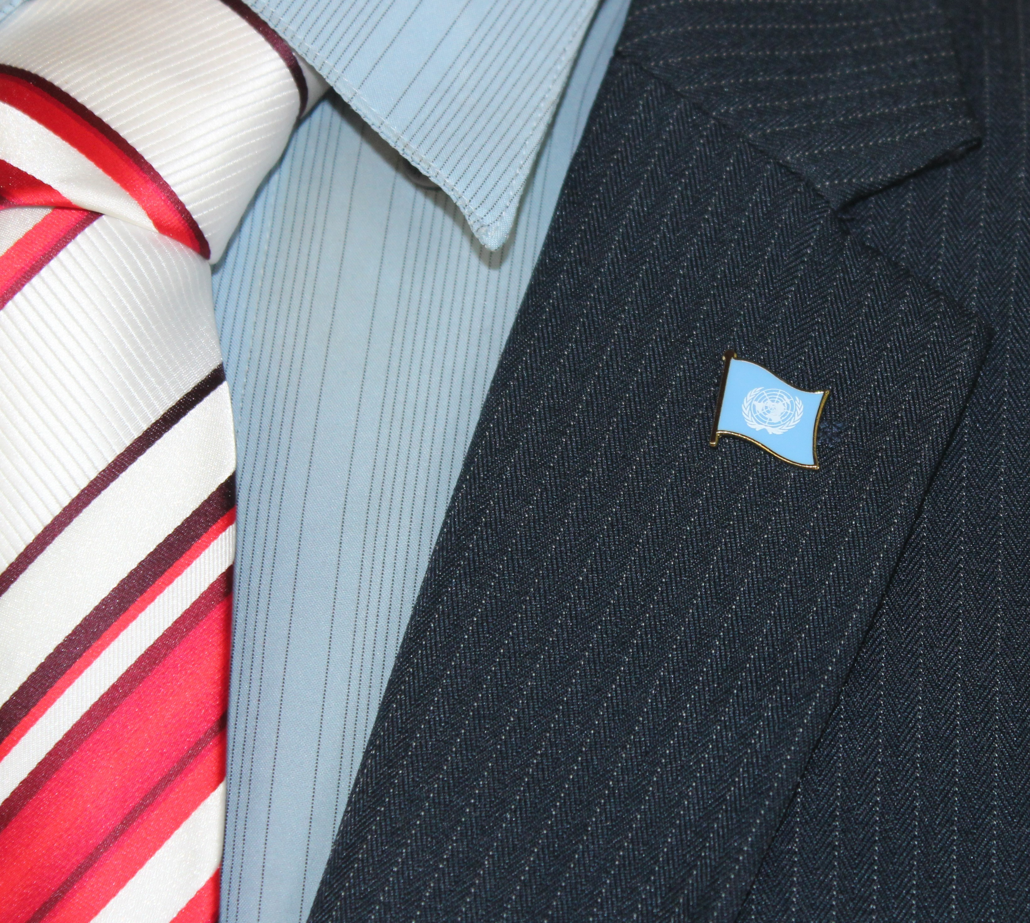 Flag of the United Nations (in lapel model)